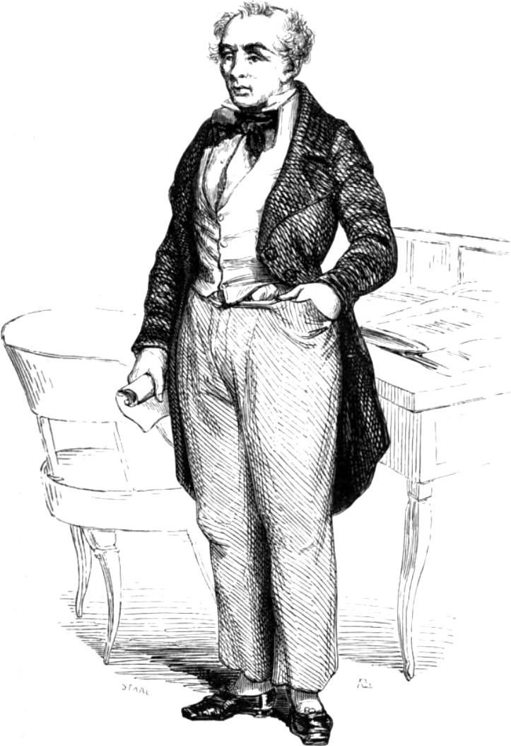 Illustration of Honoré de Balzac's Le Colonel Chabert (1832).